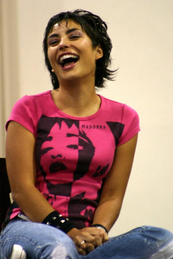 Convention - Oakland Super Slayercon - August 2004 - Iyari Limonravenu104.JPG